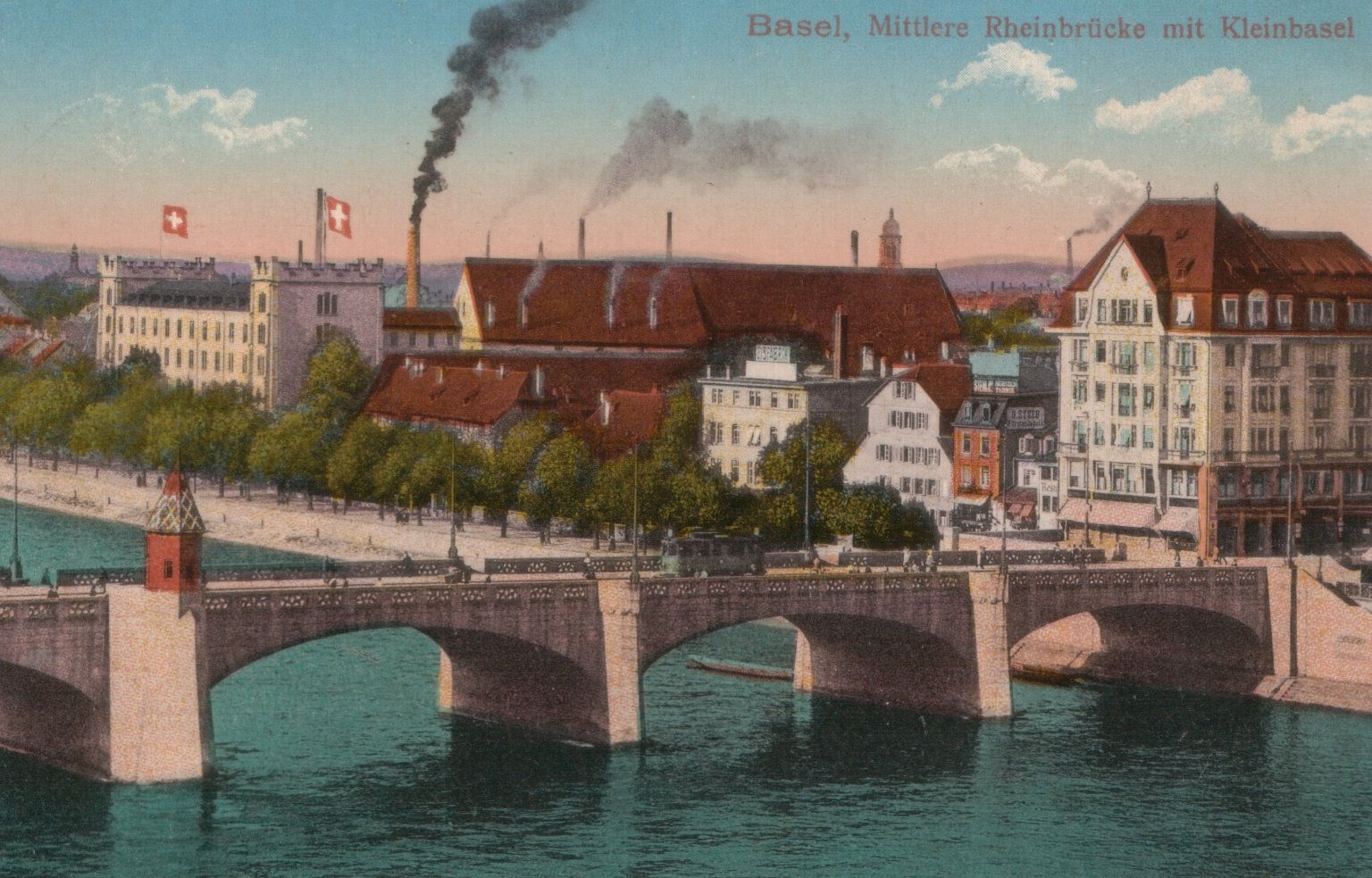 Basel and Kleinbasel